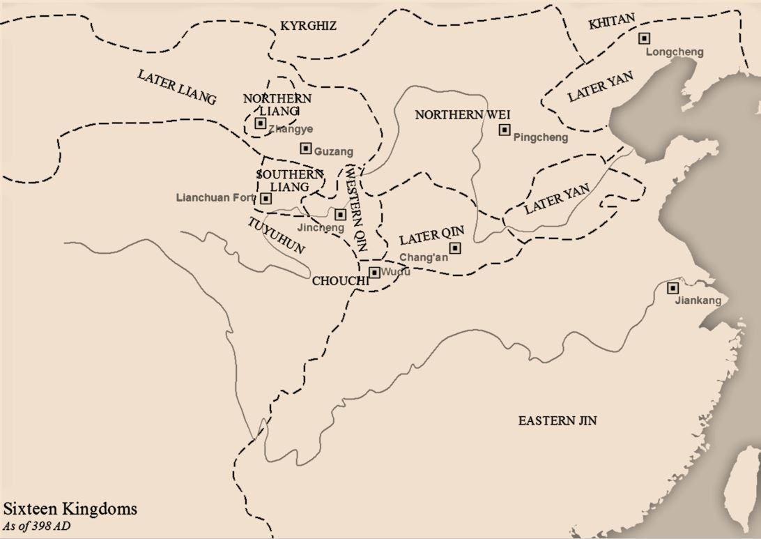 Map of Sixteen Kingdoms as of 398 AD